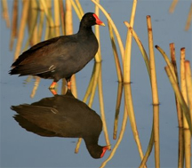 The Hawaiian Moorhen is known as the most secretive bird in the Hawaiian Islands, making it difficult to conduct surveys of this species. Credit: USFWS